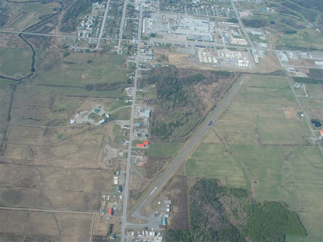 Valcourt Airport is located south of Valcourt, Quebec, Canada.